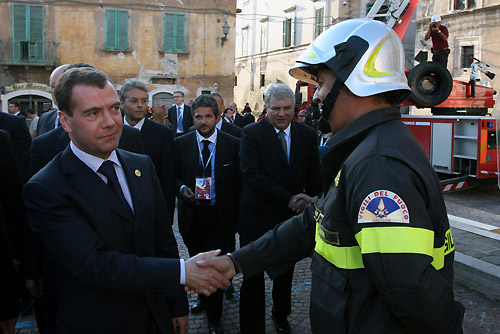 L’AQUILA, ITALY. During a survey of the historic part of the city, which was damaged by the earthquake.